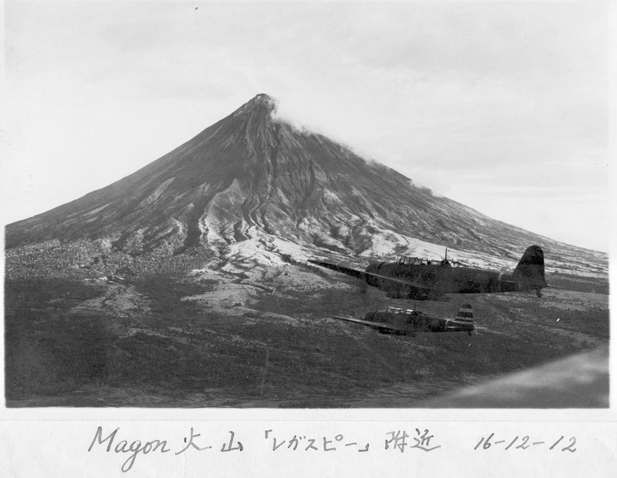 On December 12, 1941, at the foot of the Mayon Volcano, Type 97 Carrier Attack Bombers (B5N1) "Kate" from the aircraft carrier Ryujo sprang forth its attack on Legaspi, southeastern part of Luzon. It is said that leading from the front and commanding the pack was Captain Masayuki Yamagami.